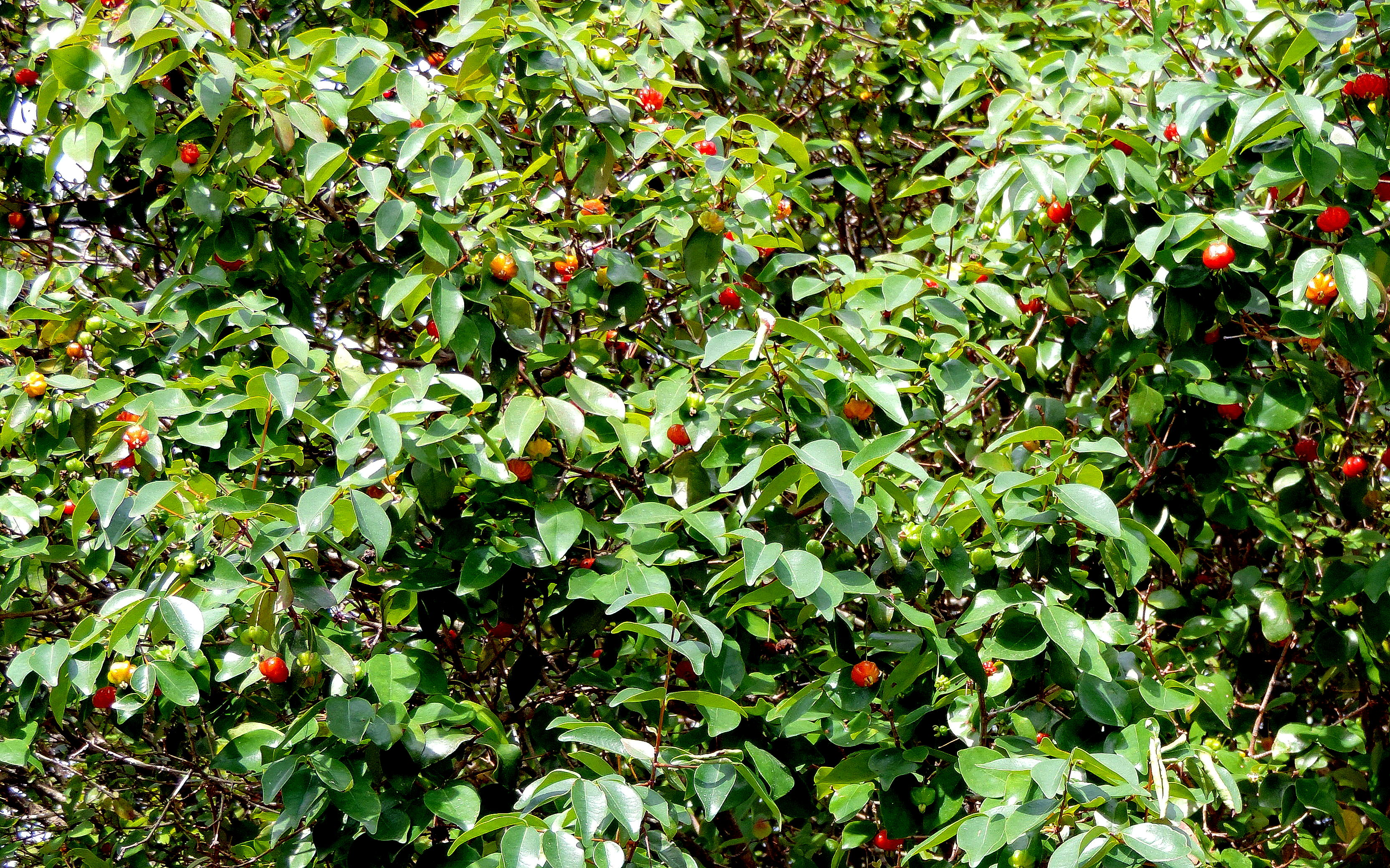 Image captured in the gardens of the Federal University of Santa Catarina, Brazil.